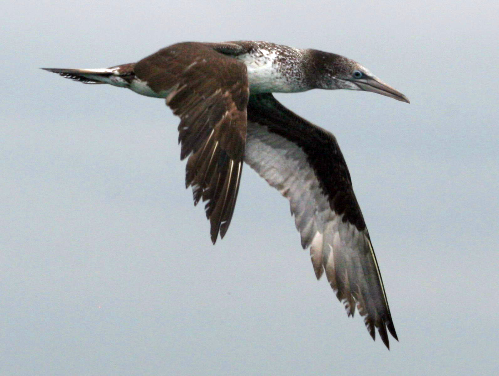 Juvenile Northern Gannet (Morus bassanus) - off Sunset Beach, North Carolina